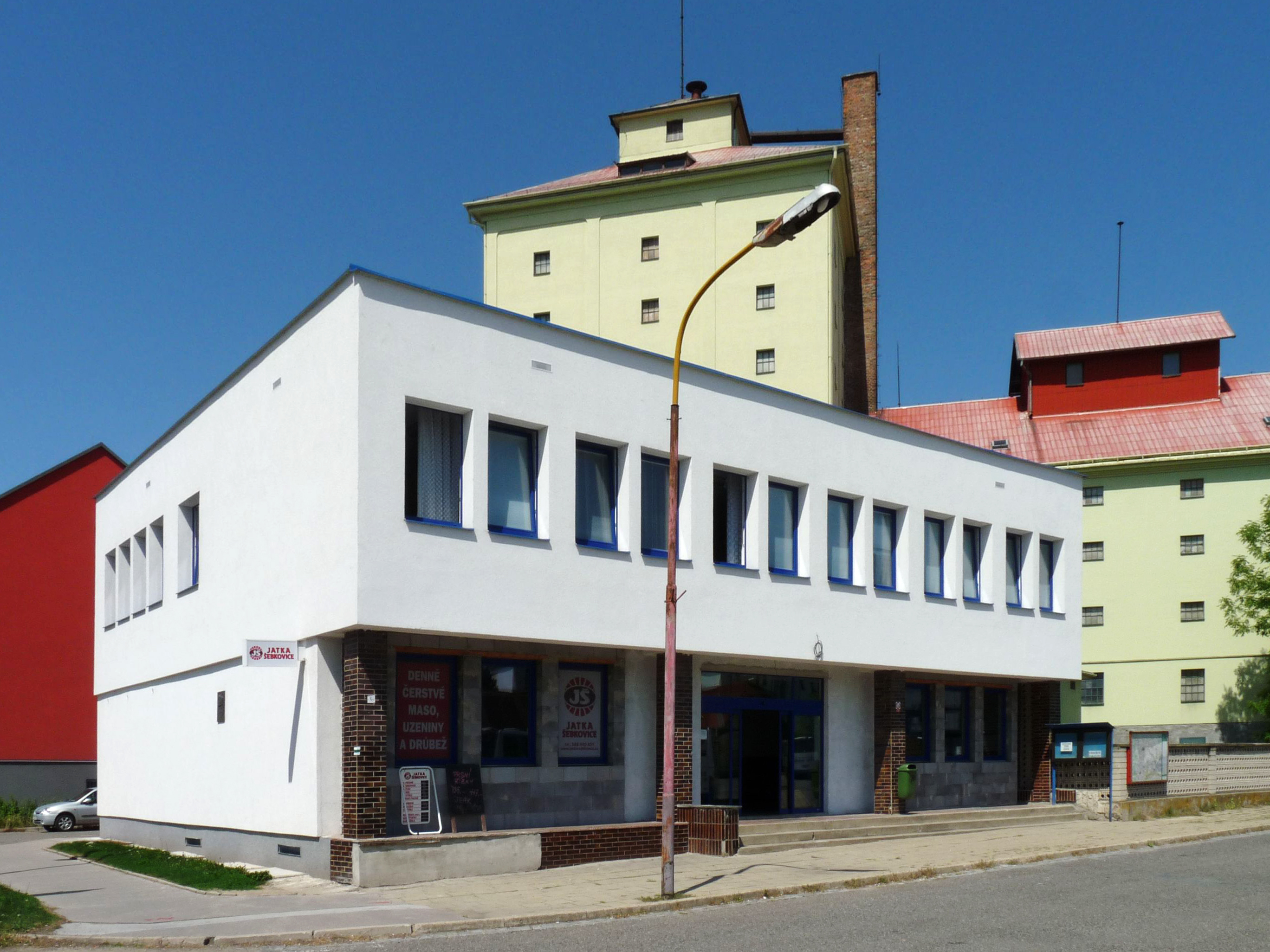 Bus station building in the town of Moravské Budějovice, Třebíč District, Czech Republic situated where the last local synagogue used to stand.